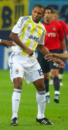 Mehmet Aurélio